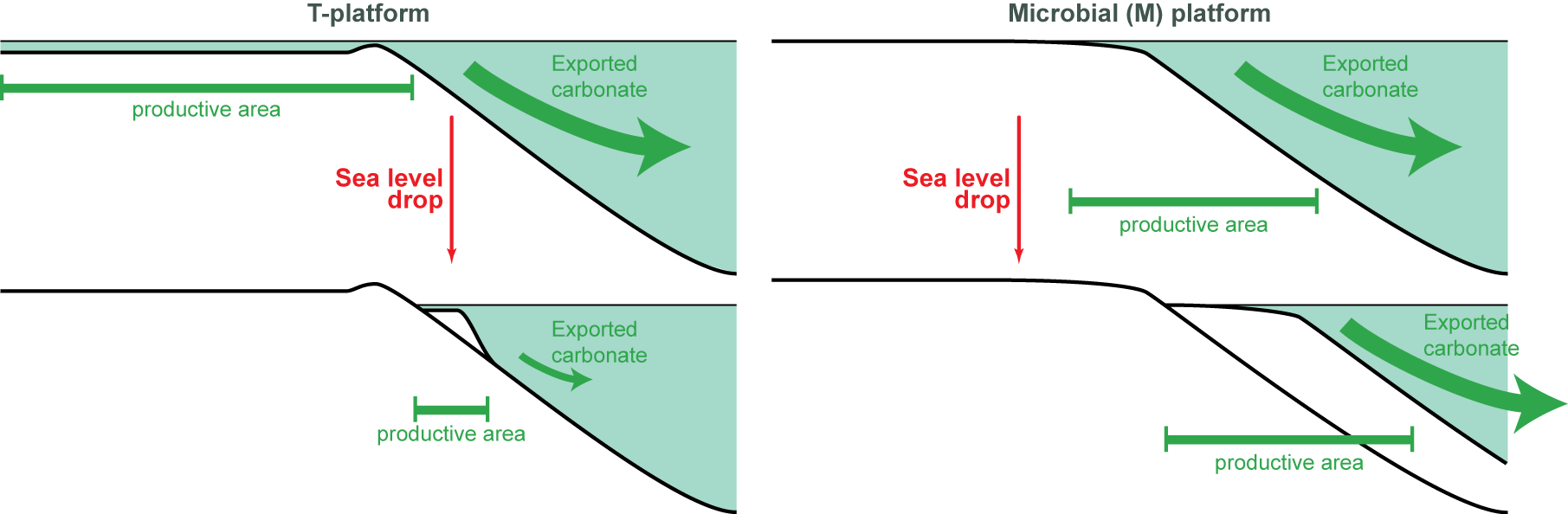 Schematic explanation of the highstand shedding and slope shedding concepts.